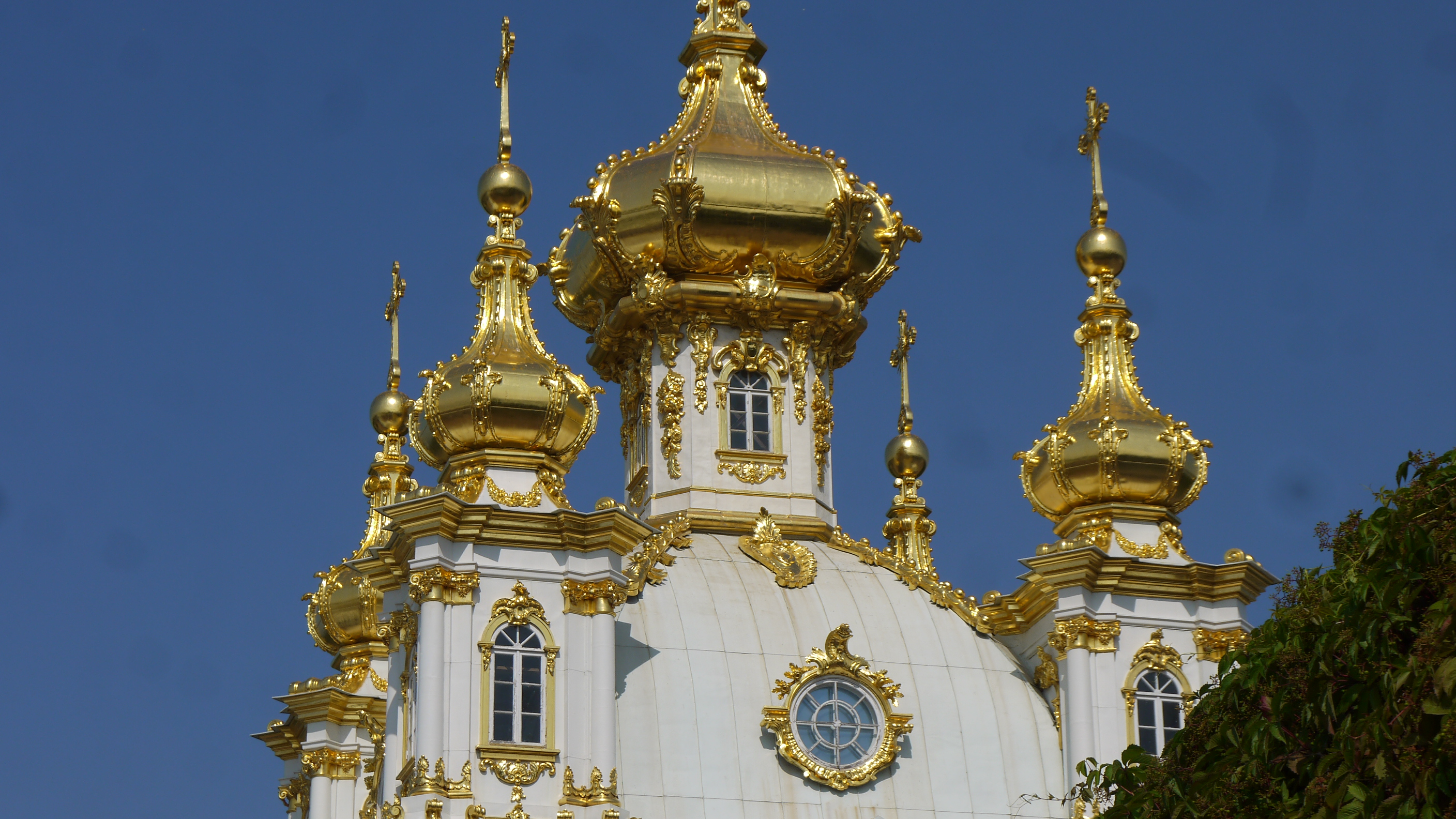 August 2014 in Saint Petersburg